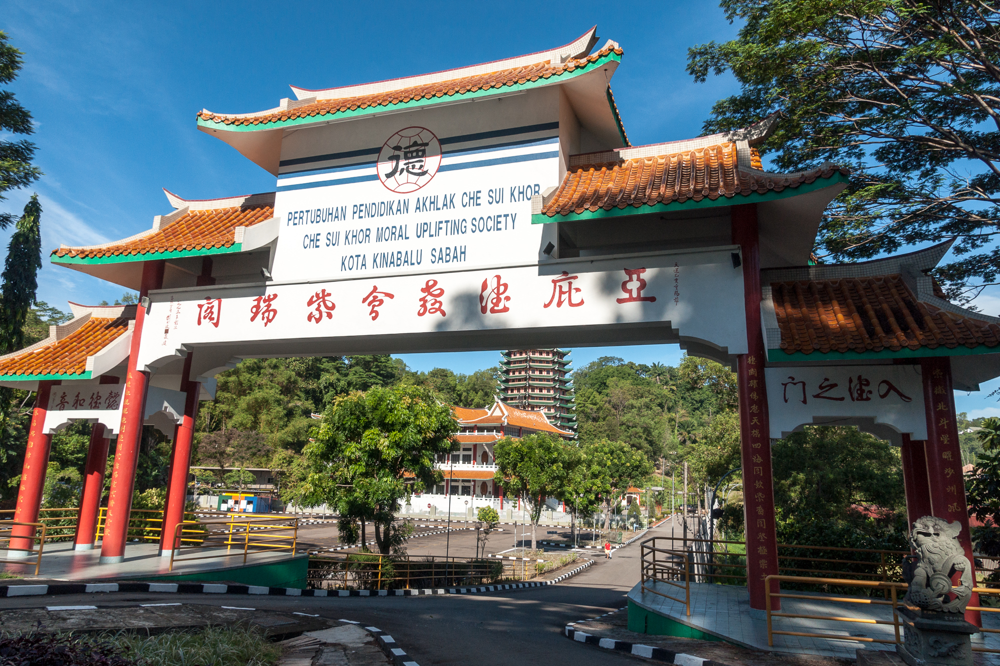 Kota Kinabalu (Sabah): Entrance to the premises of the Moral Uplifting Society (A society of the Teik Kau Sect) and the CHE SUI KHOR Pagoda